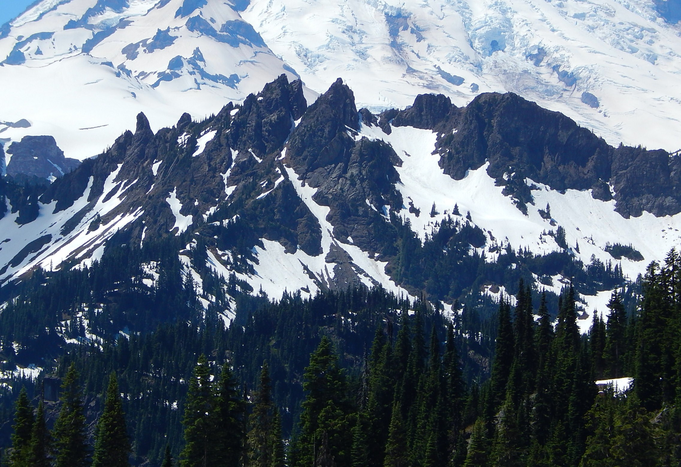 Governors Ridge at Mount Rainier National park